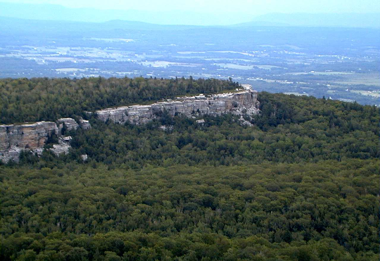 Gertrude's Nose seen from Hamilton Point in the Minnewaska State Park Preserve, New York State. Taken by User:Mwanner, July 19, 2000.